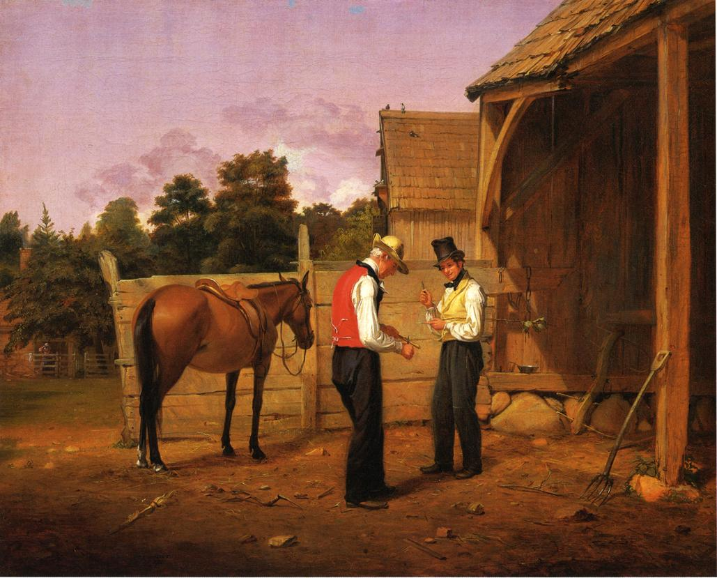 Bargaining for a Horse (1835) William Sidney Mount New-York Historical Society